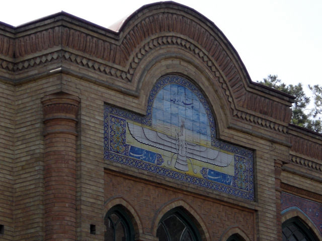 Firuz Bahram High School, Tehran, built 1932